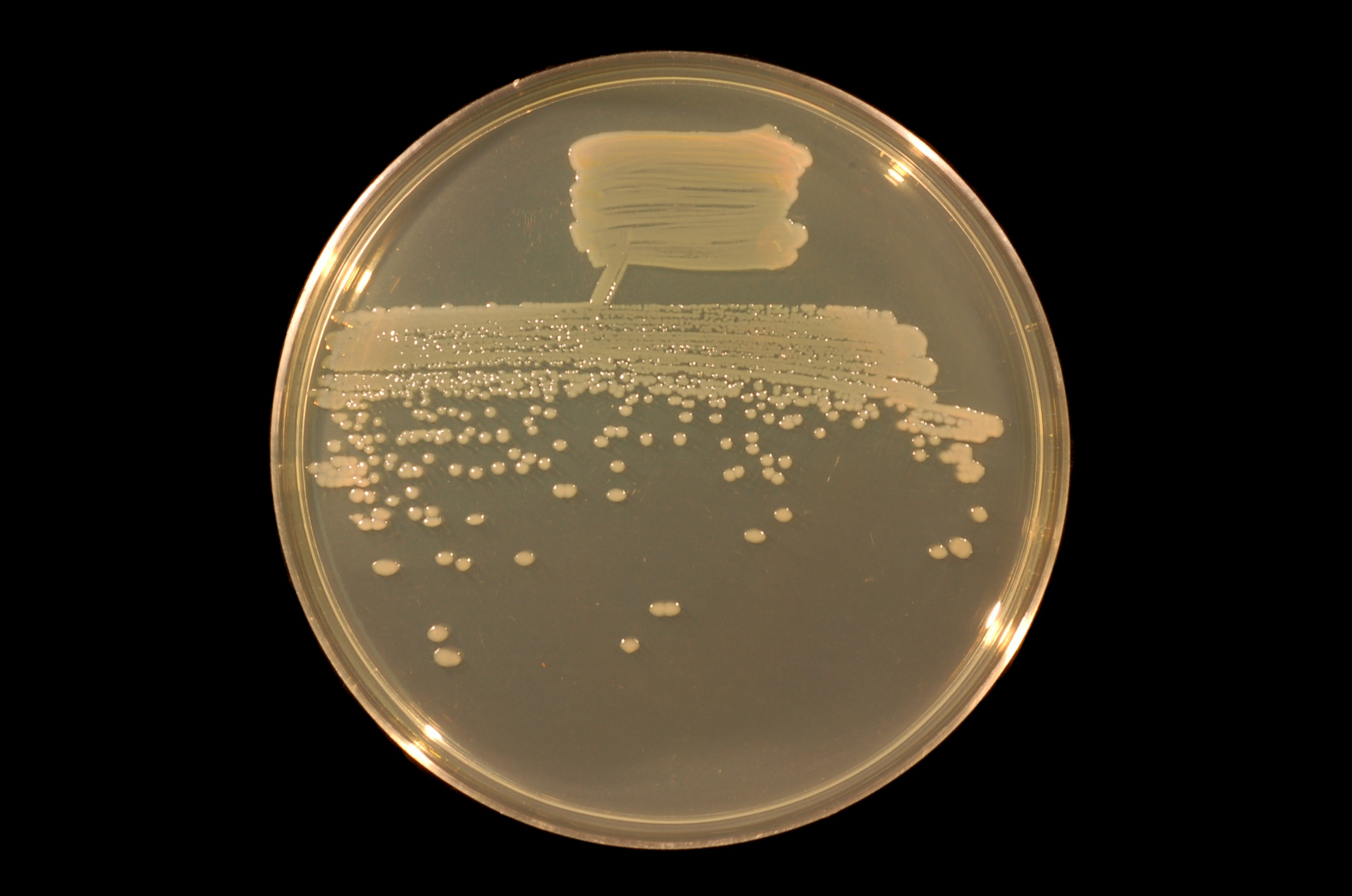 The bacterium Pseudomonas fluorescens streaked to single colonies on Tryptone-Yeast Extract (TY) agar and visualized under white light.